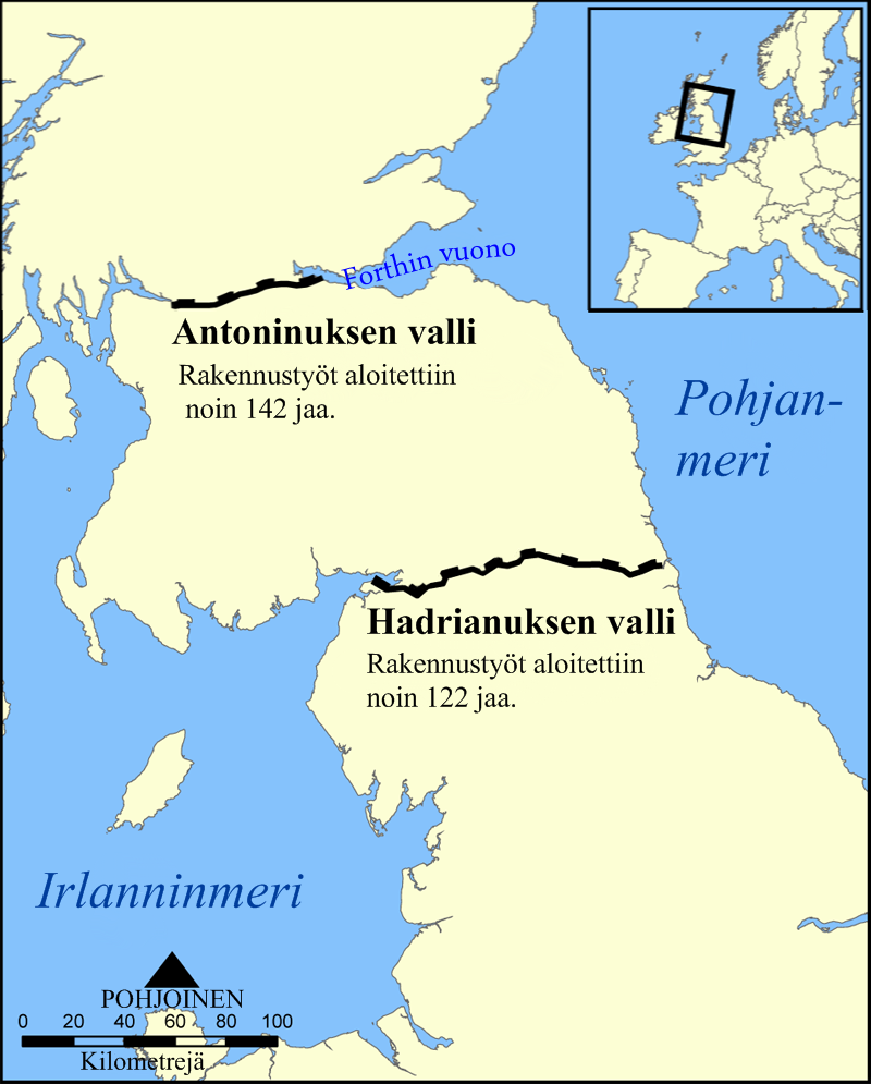 This map shows the location of Hadrian's Wall and the Antonine Wall in Scotland and Northern England.